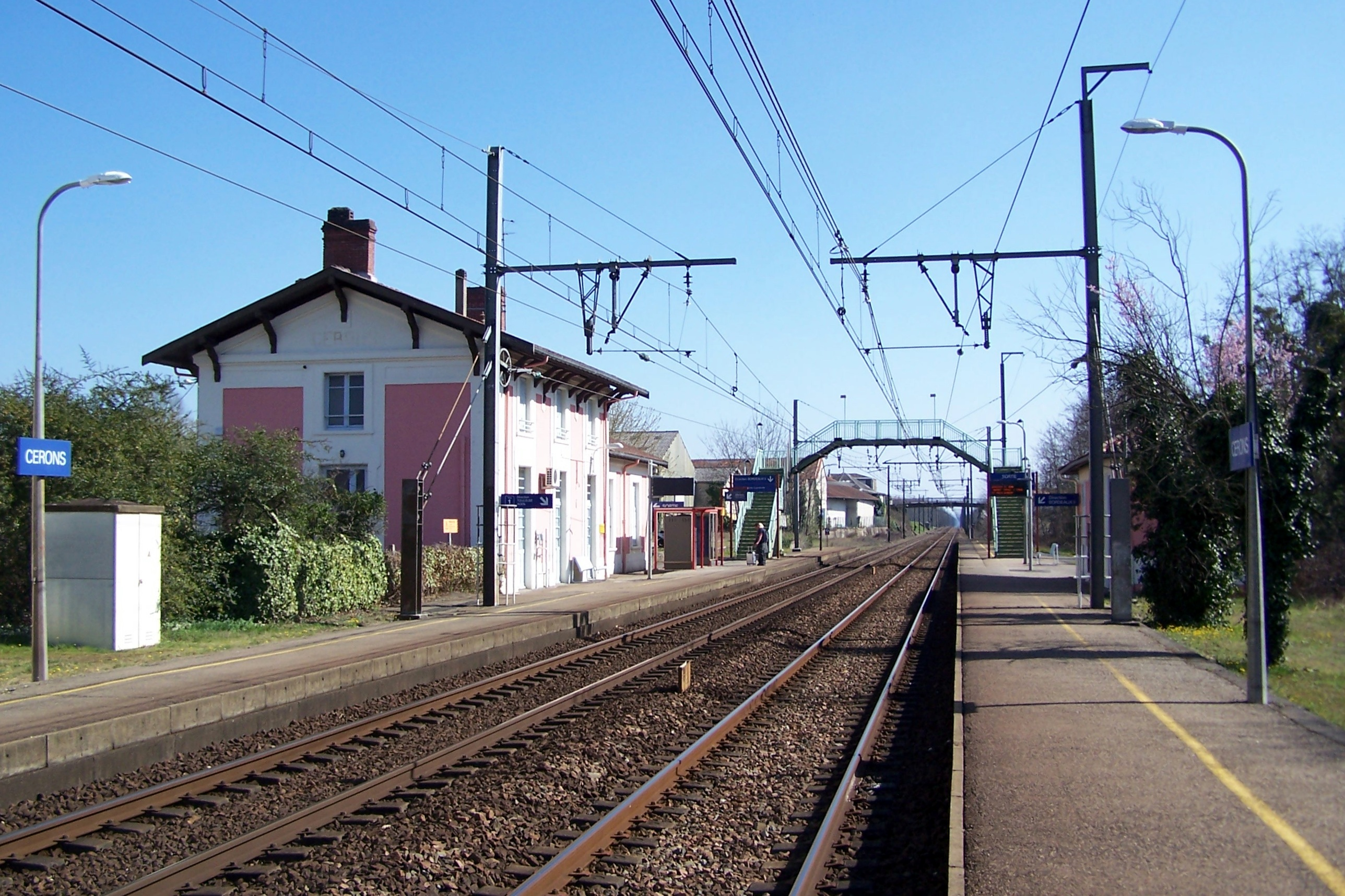 Train station of Cérons (Gironde, France)